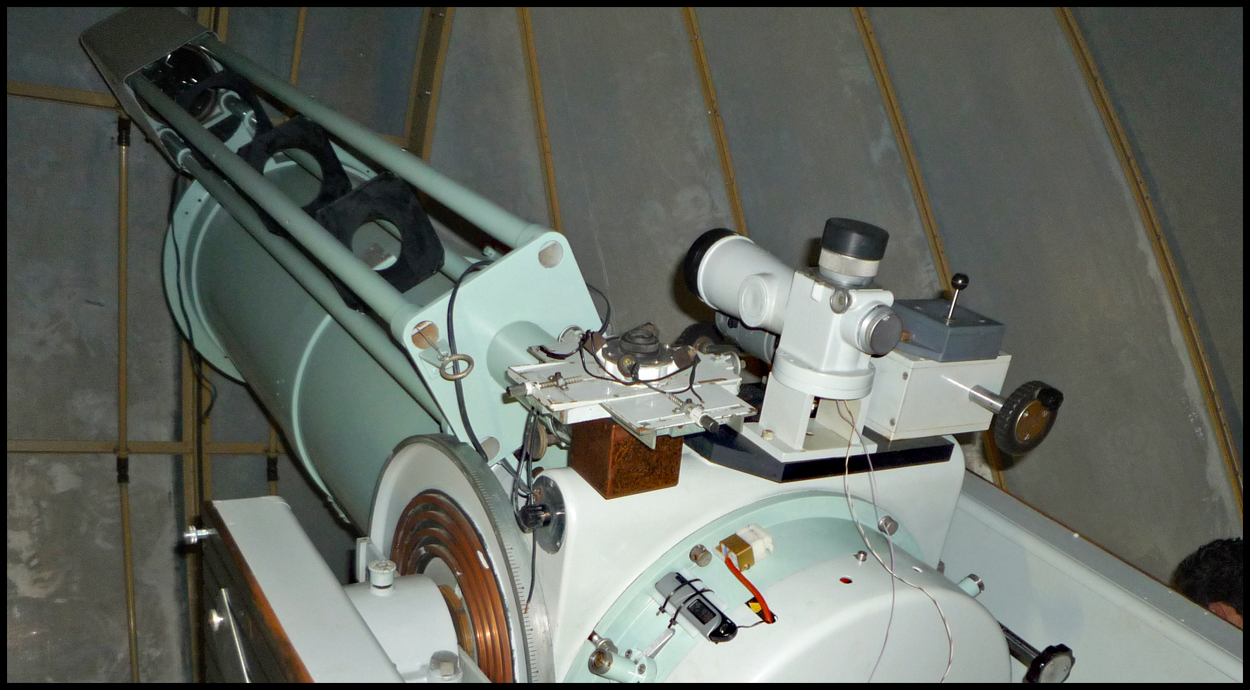 Leiden, Netherlands - Observatory.